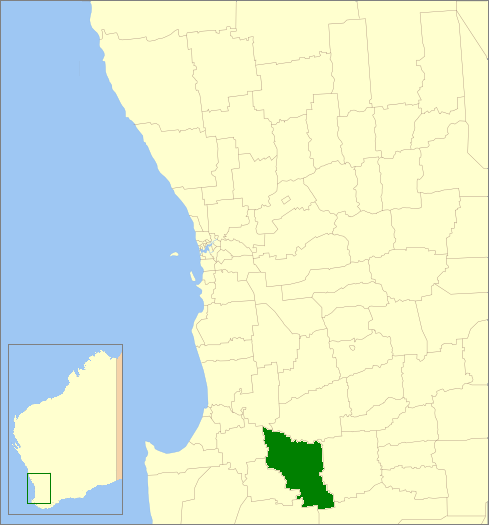 Description=Location of the Local Government Area in Western Australia